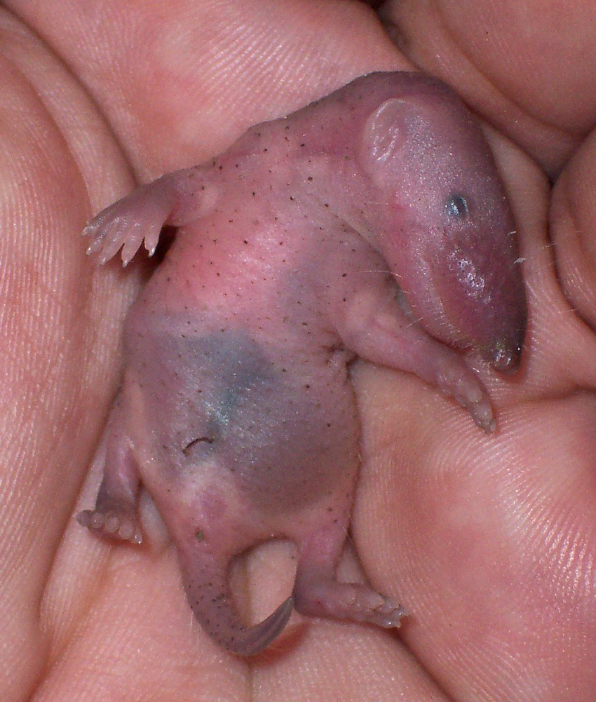 Baby Suncus murinus, from Darmaga, Bogor, West Java, Indonesia